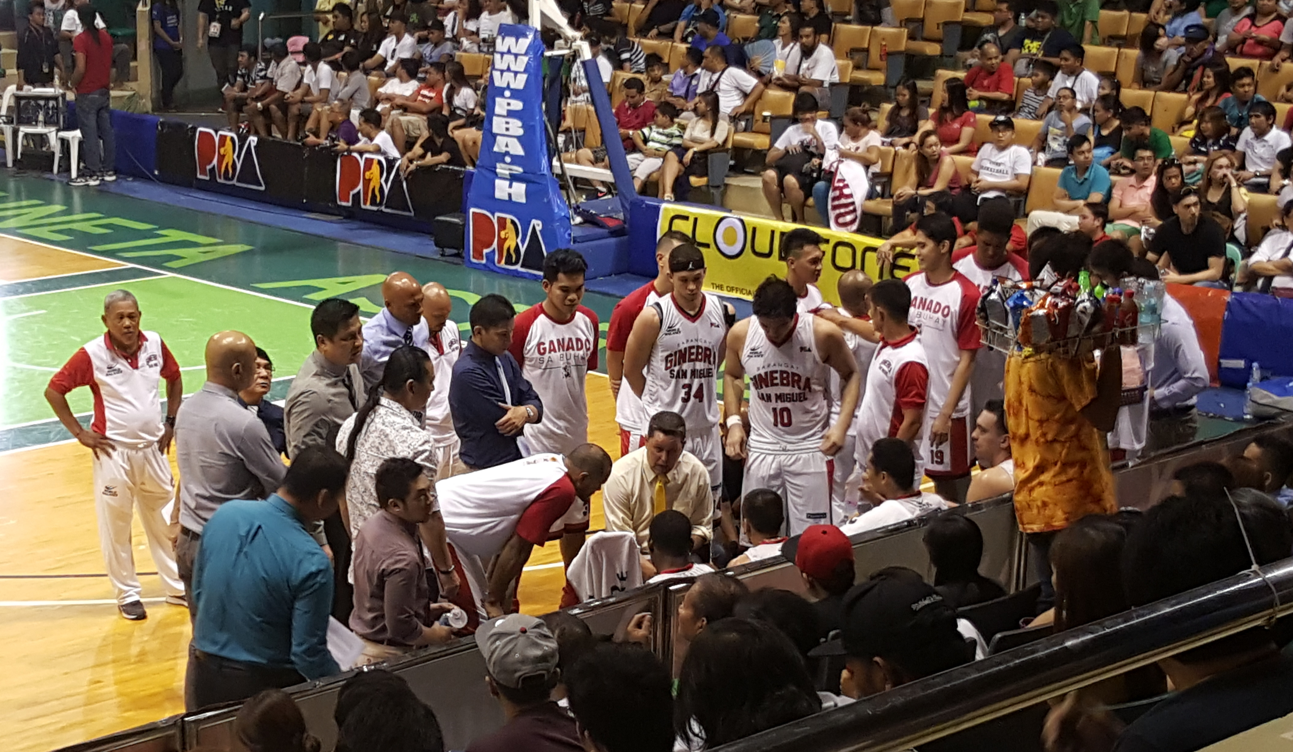 PBA - Rain or Shine vs Barangay Ginebra - BGSM bench - 2016-0417